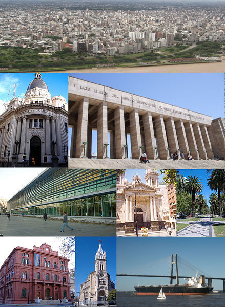 Images montage of Rosario, Argentina.